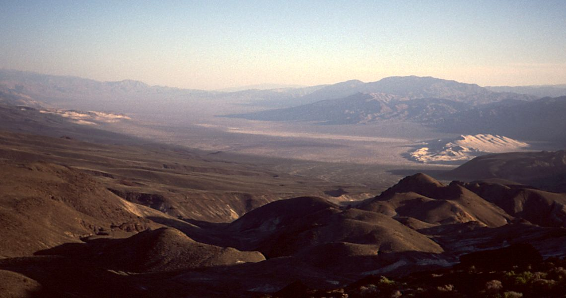 Eureka Valley, California, looking north at sunrise, with the Eureka Dunes and Last Chance Mountain.